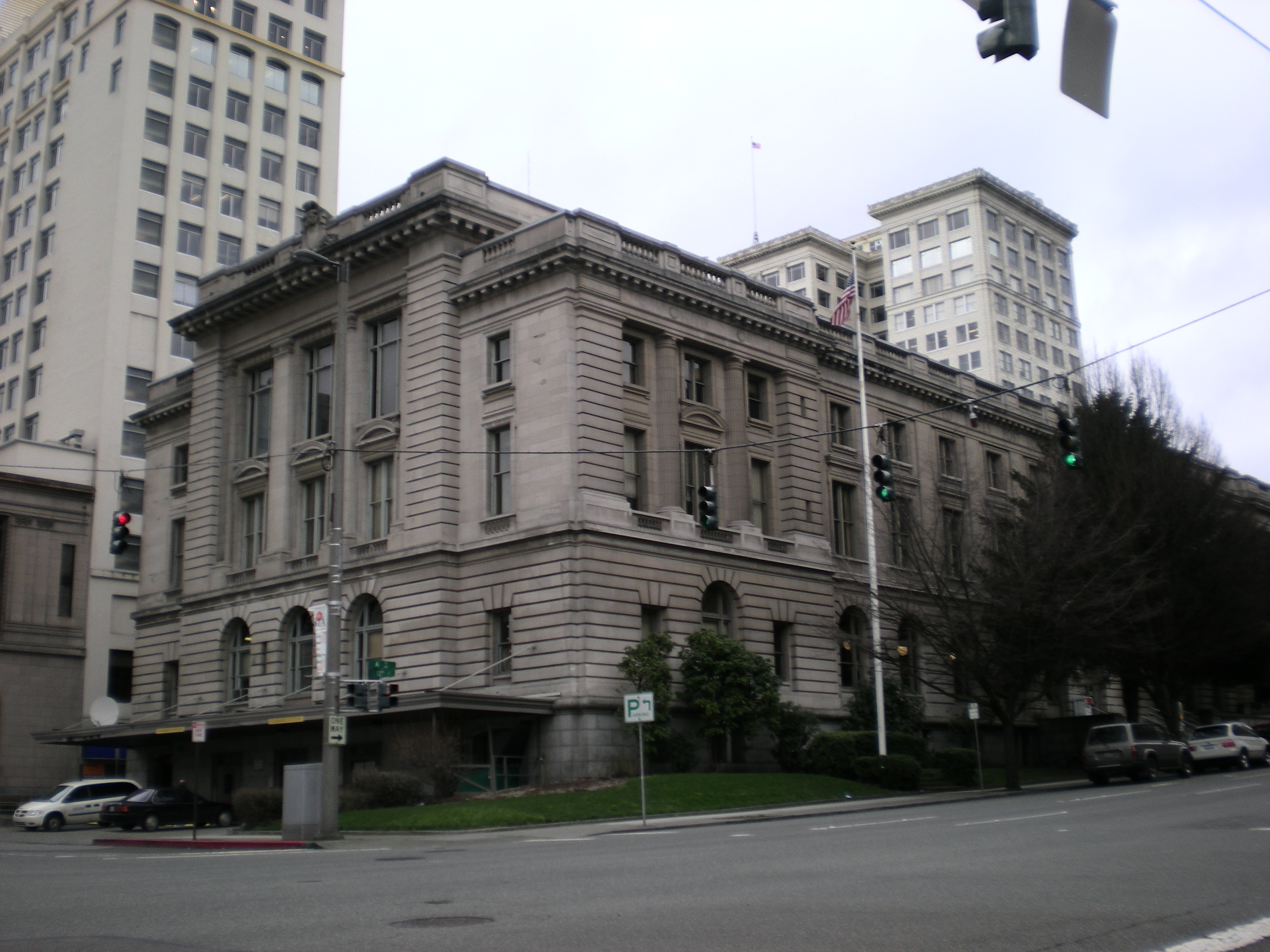 The US Post Office-Tacoma Downtown Station-Federal Building in Tacoma, Washington